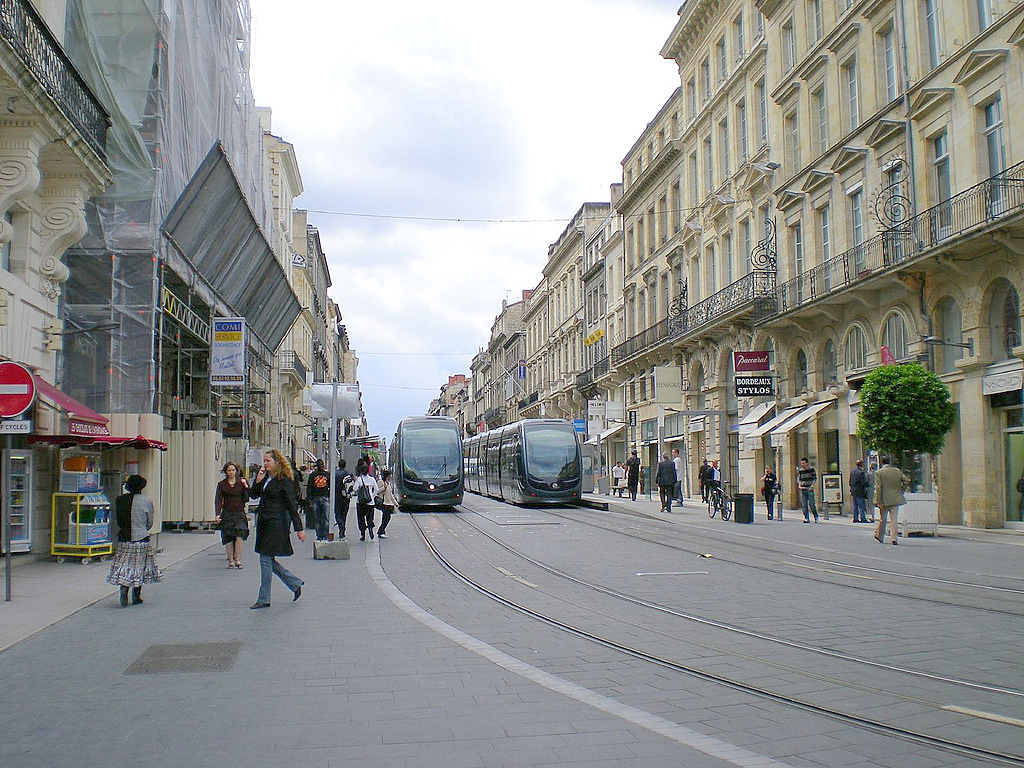 Tramway de Bordeaux (for the change of size see discussion page)